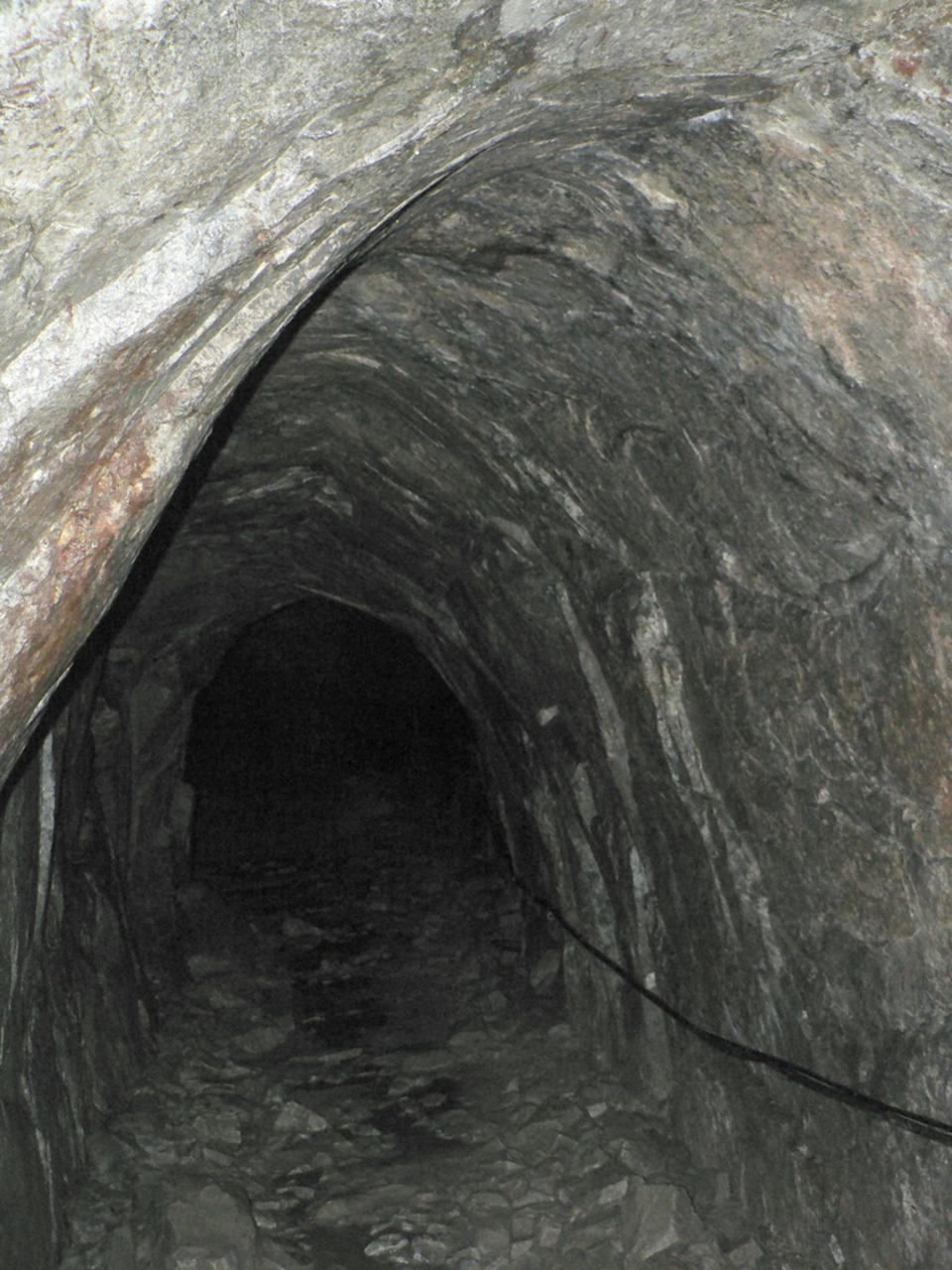 Image title: Mining path Image from Public domain images website